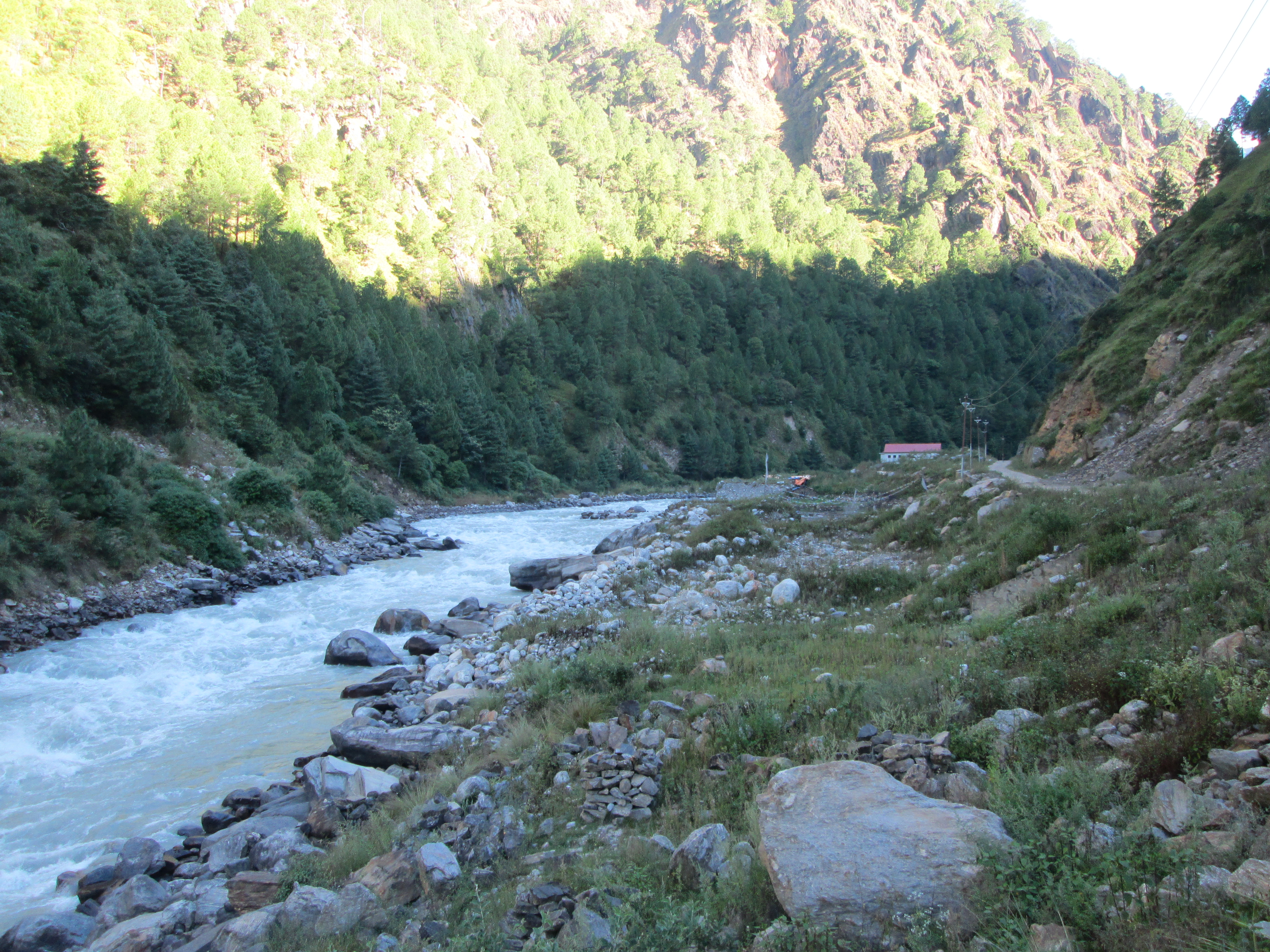 Trishuli River along side the road to Timur